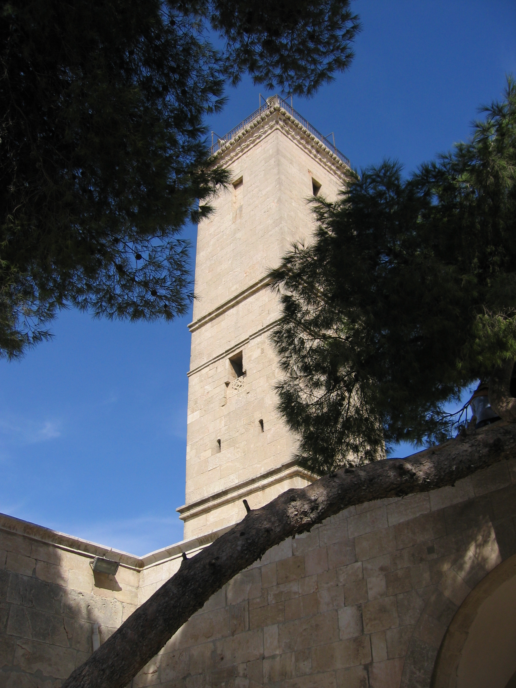 Description: minaret of the Aleppo Citadel Mosque Aleppo Syria